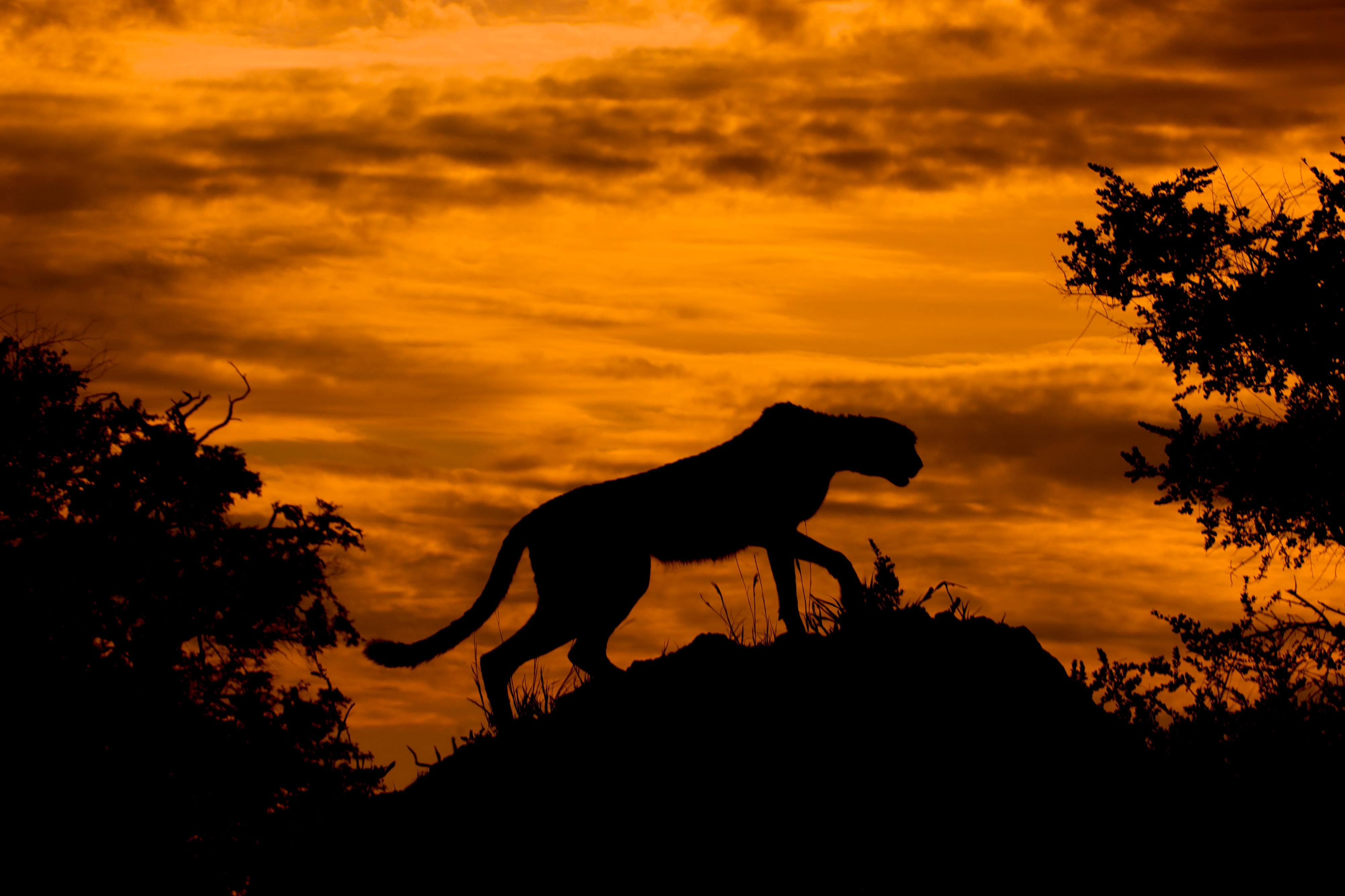 A South African cheetah (Acinonyx jubatus jubatus) silhouetted against a fiery sunset, in the Okavango, in Botswana.